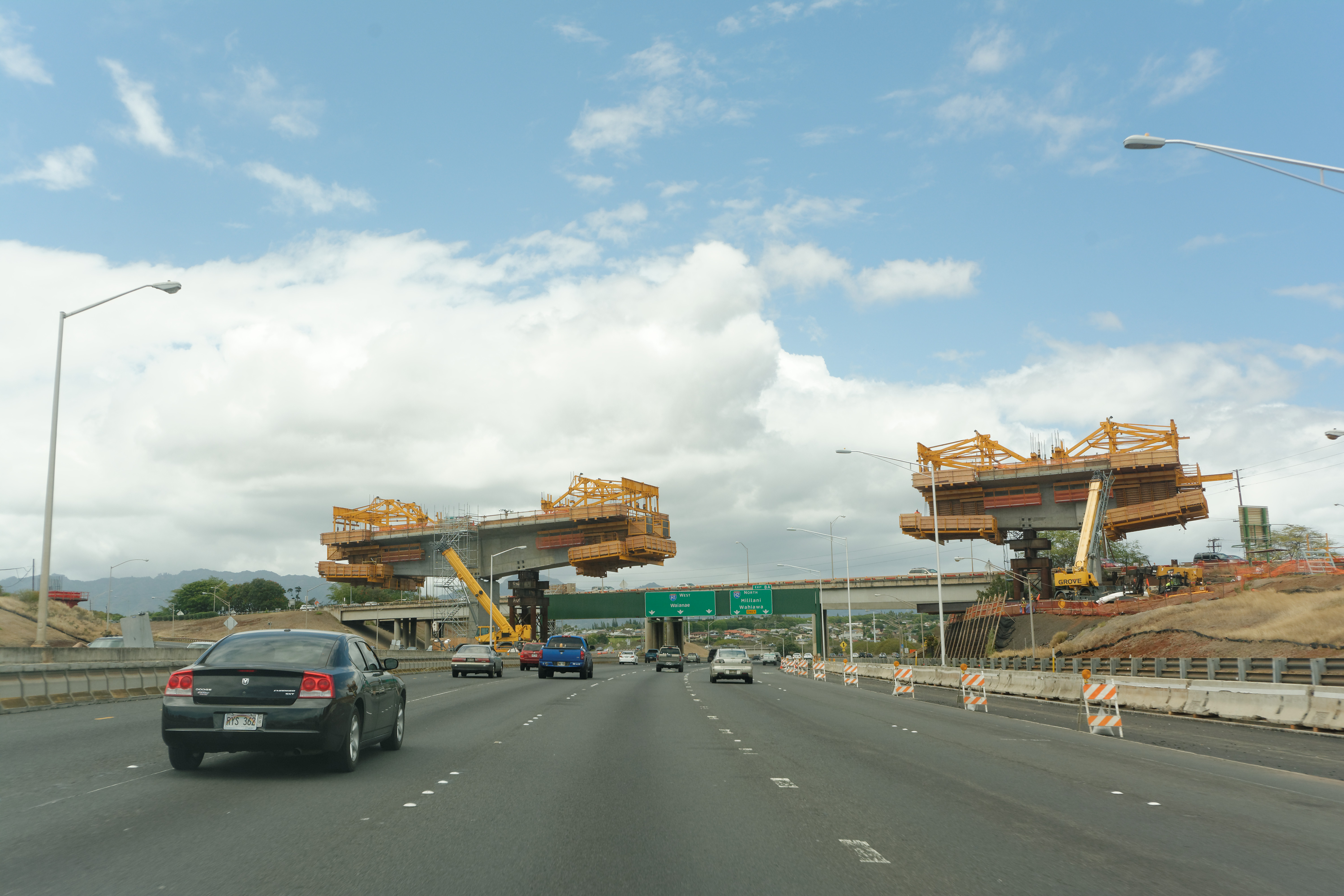 Overhanging track pieces over the freeway.